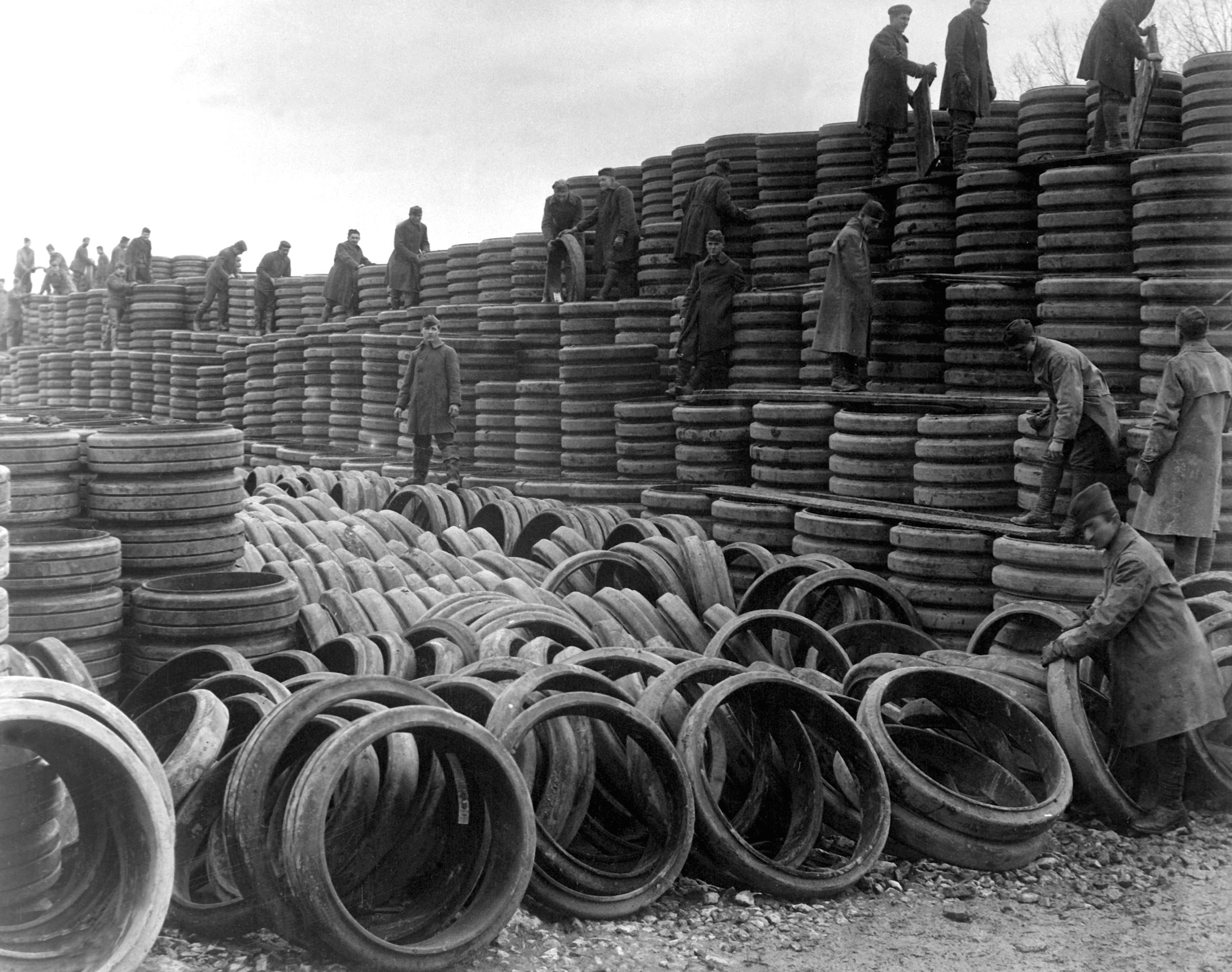 A pile of 85,000 solid tires for A.E.F. motor vehicles is one of the treasures of Langres, France. Shows men of Motor Transport Corps, assisted by German prisoners, building up wall of rubber to greater height. . (Army) NARA FILE #: 111-SC-44921 WAR & CONFLICT BOOK #: 588